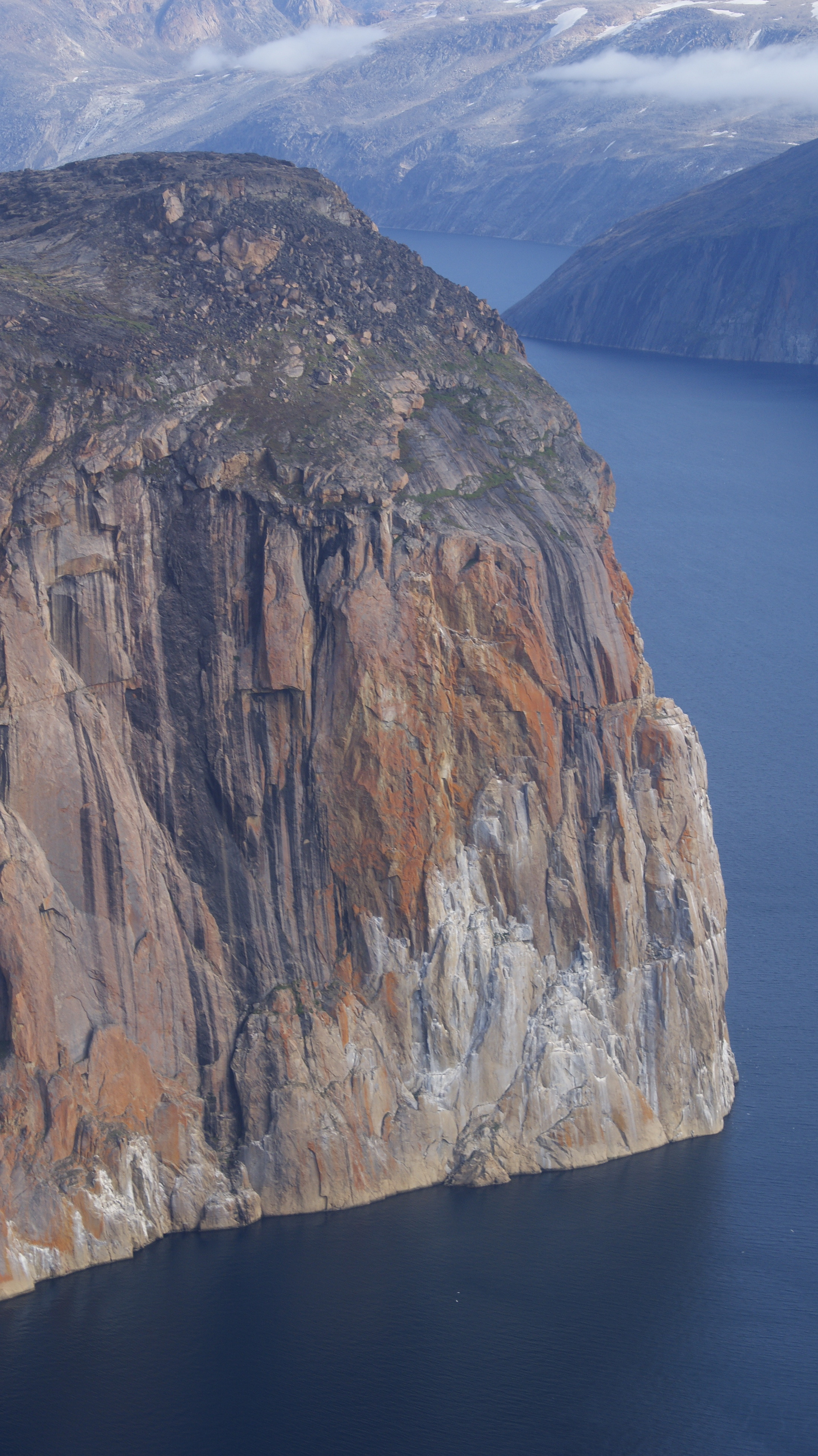 Aerial view of the Apparsuit promontory (central-southern cape) on Qaarsorsuaq Island, Upernavik Archipelago, Greenland. Photographed from the Air Greenland Bell 212 helicopter during the Upernavik Kujalleq - Upernavik flight.